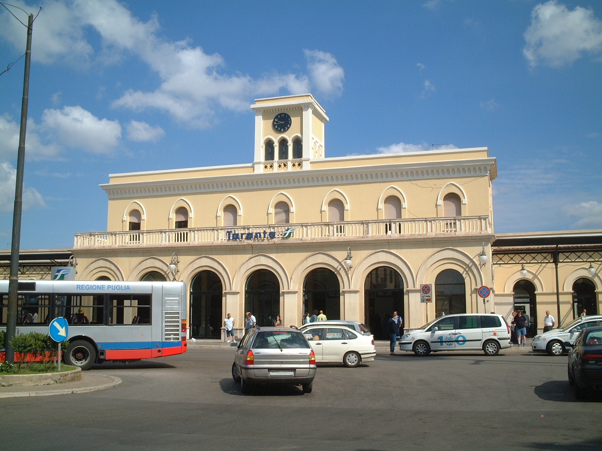 Railway Station. Photo taken in Tarant Puglia Italy.